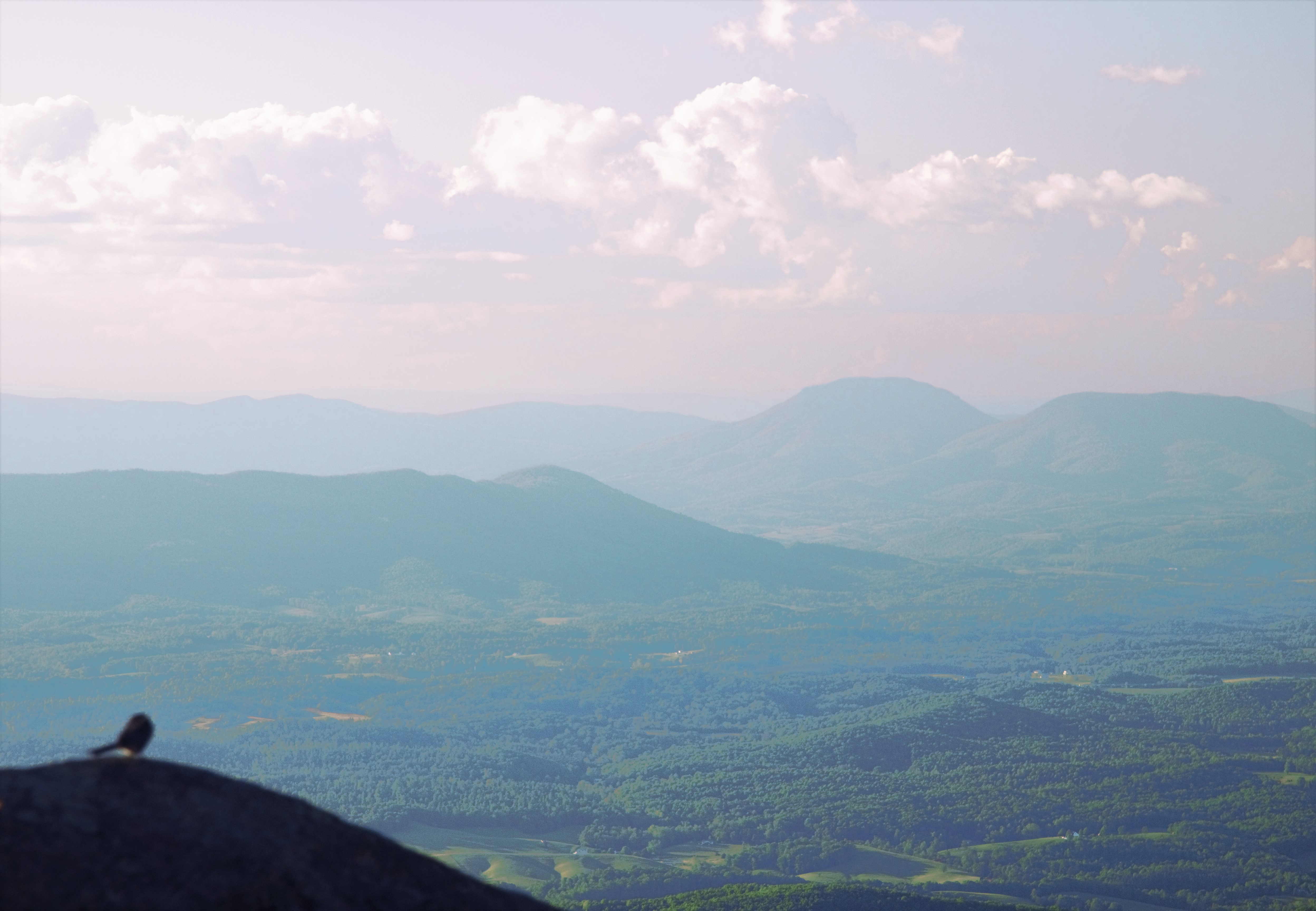 Photograph of the Arnold Valley taken from Thunder Ridge on the Blue Ridge Parkway, Virginia